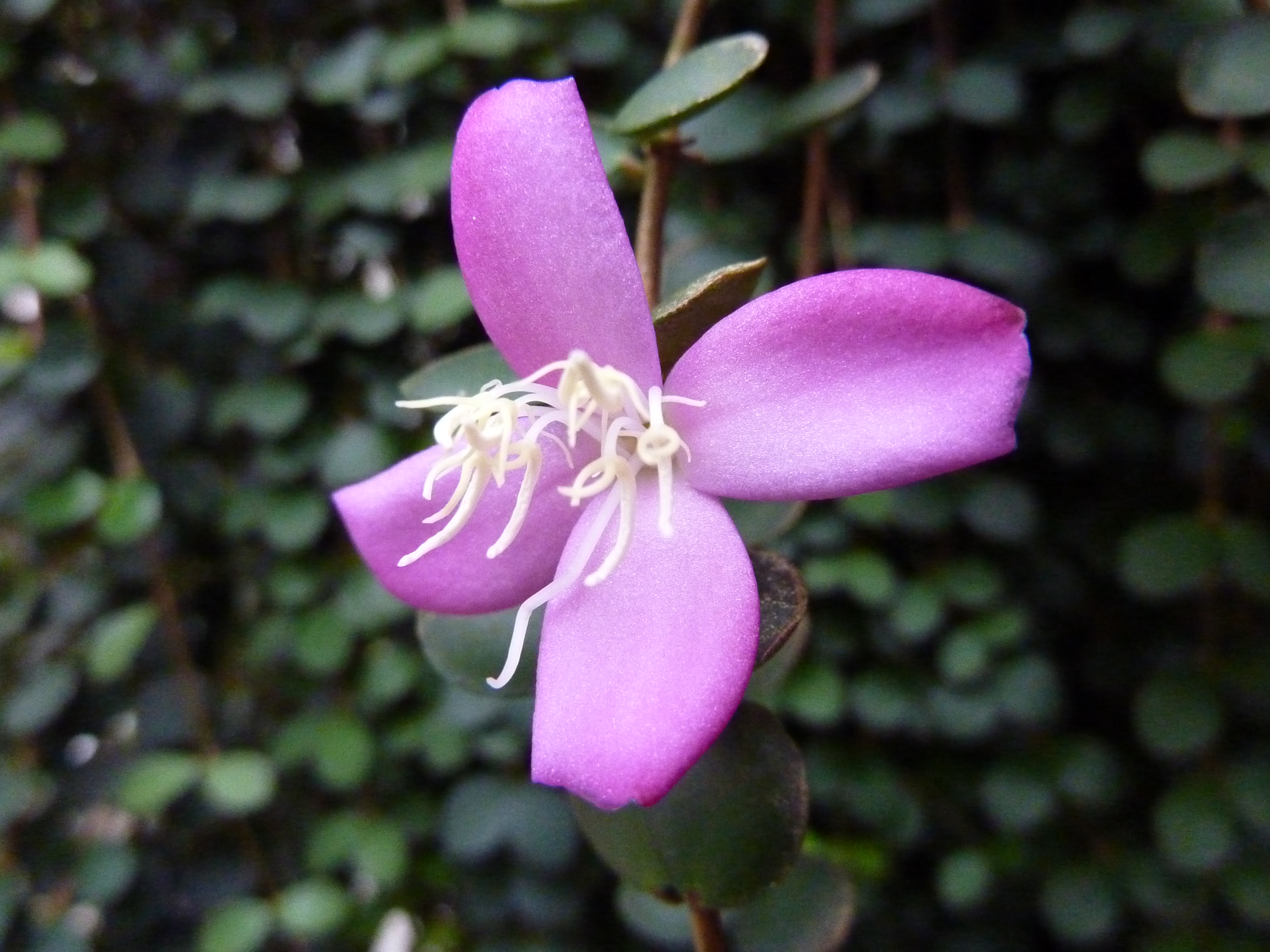 Medinilla sedifolia in the Sukkulenten-Sammlung Zürich